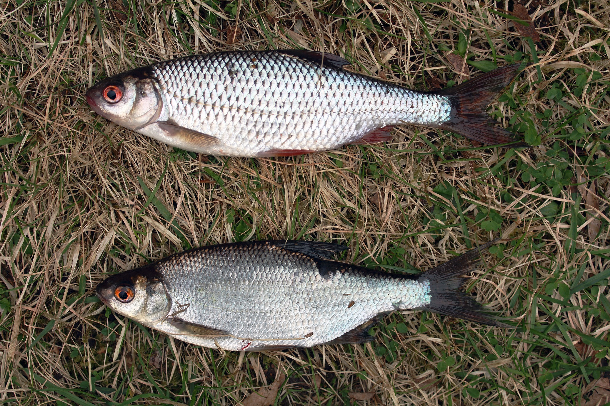 Roach x bream hybrid, normal roach on top